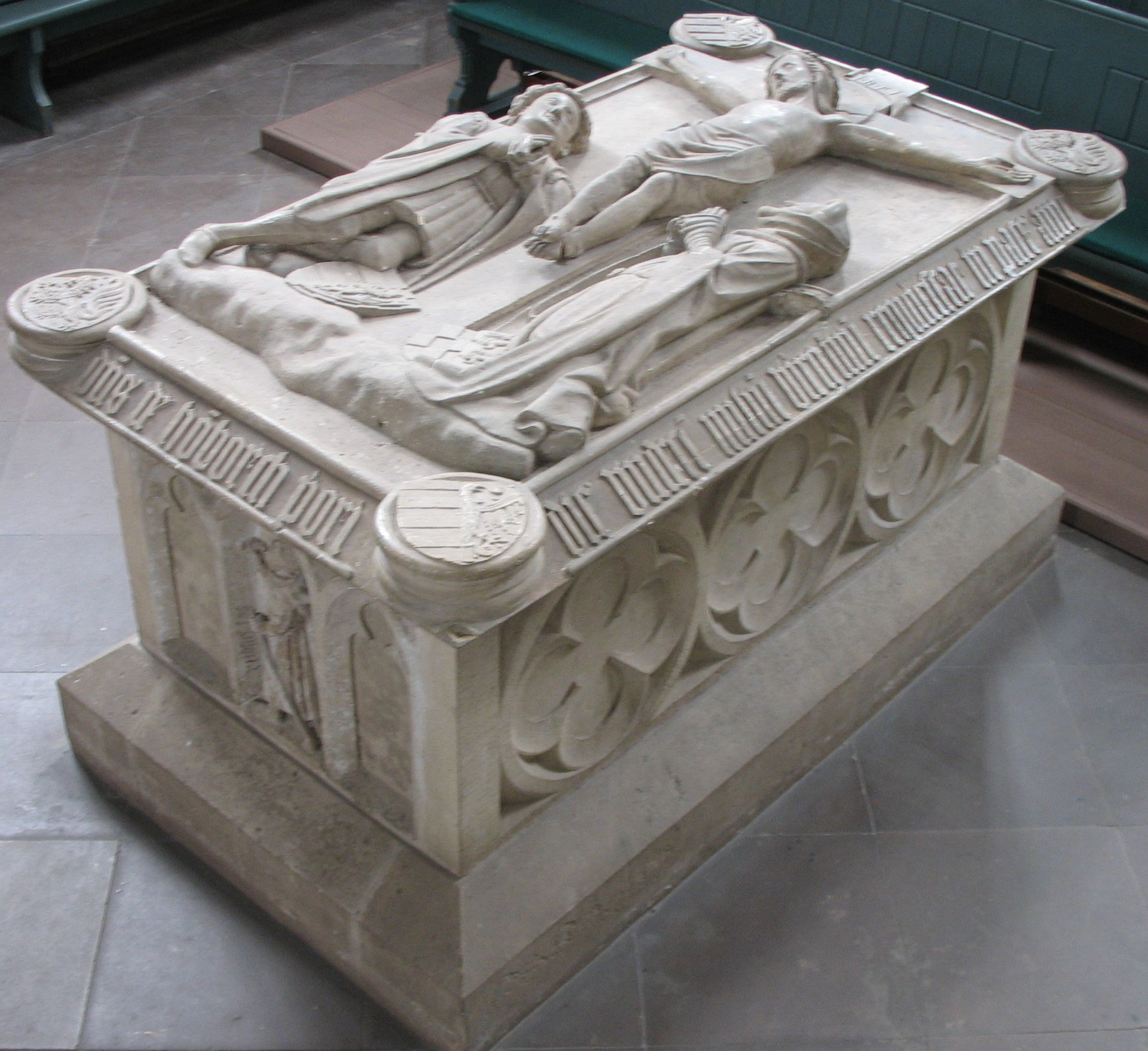 Tumba of Siegfried von Homburg in the monastery church Kemnade, Bodenwerder-Kemnade (Lower Saxony) - The Tumba of Count Siegfried of Homburg († 1380) and his wife is a high grave made of sandstone. The walls are decorated with tracery and arcades. In a high relief on the cover plate, the couple Homburg are shown, kneeling before the cross with the Savior.